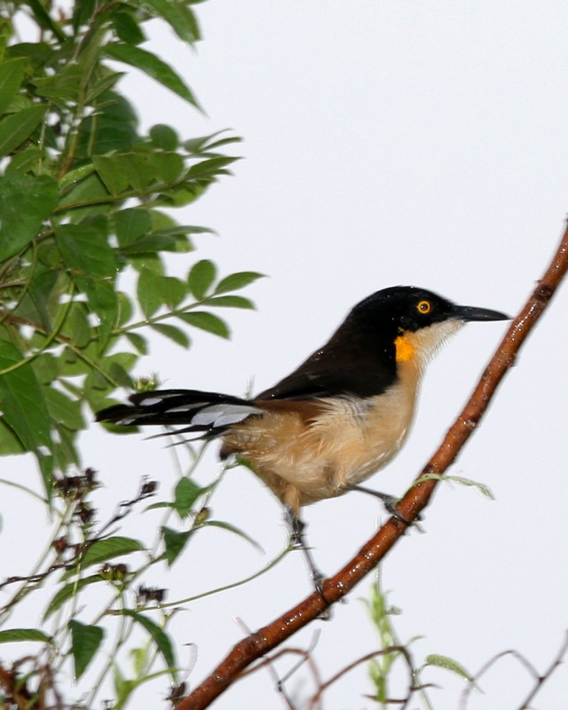 Black-capped Donacobius (Donacobius atricapilla) Location : Iguasu Falls, Argentina 4th. April 2006